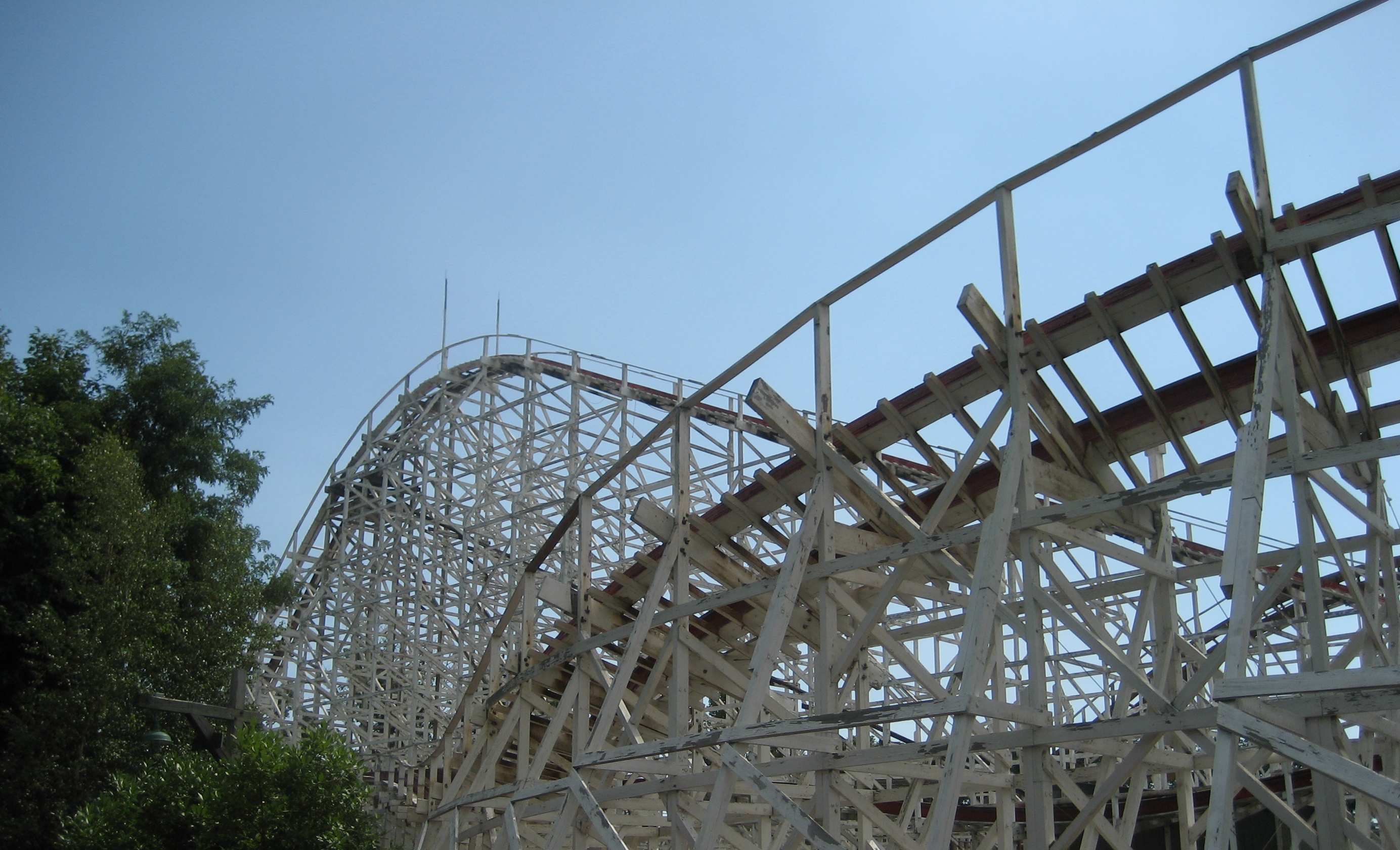 Picture of Raging Wolf Bobs at Geauga Lake amusement park.